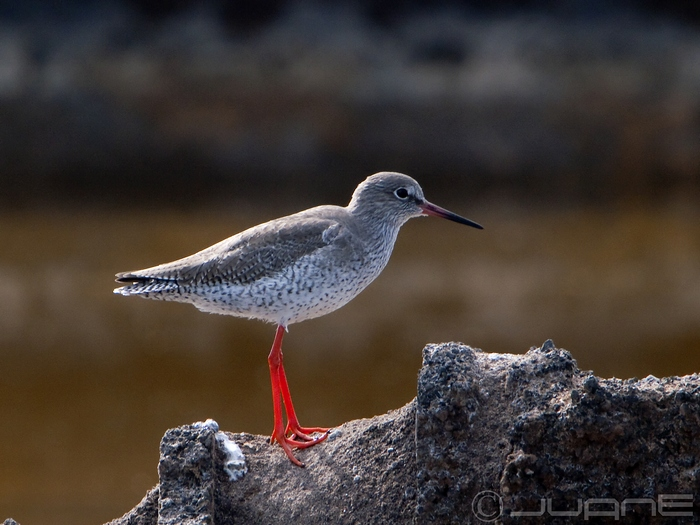 Archibebe común (Tringa tonatus)